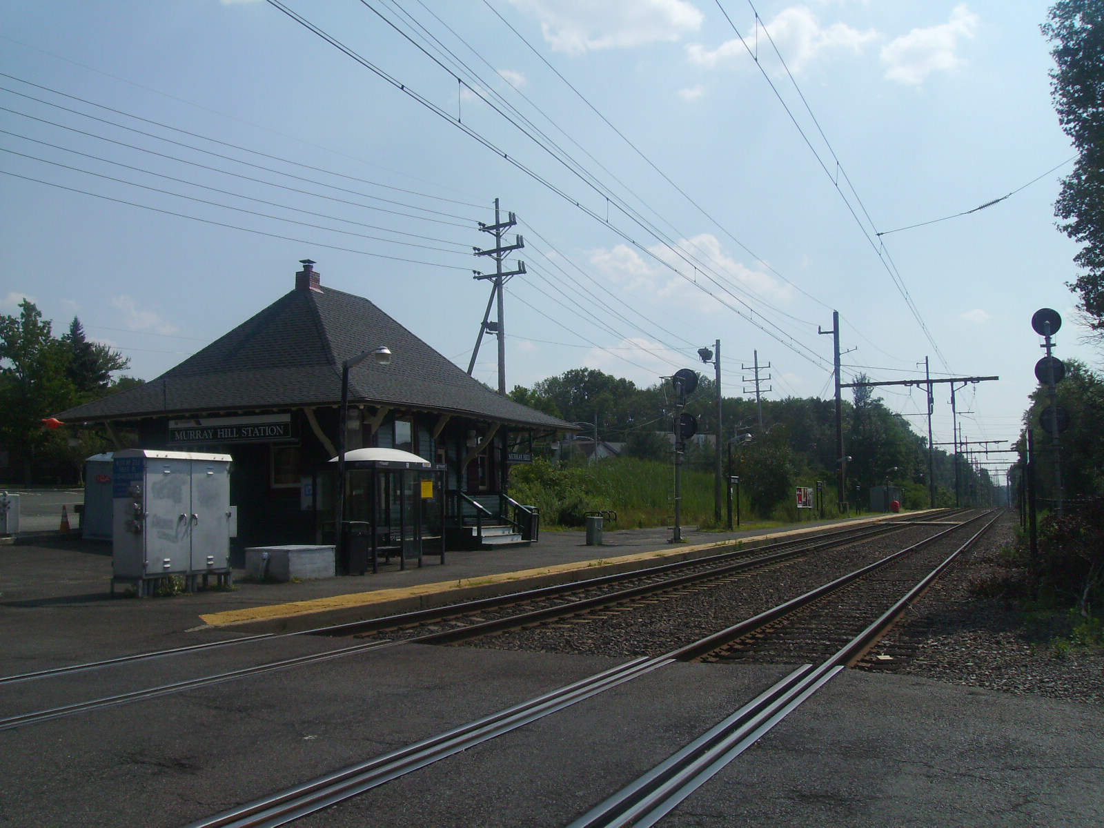 The Murray Hill station on New Jersey Transit's Gladstone Branch, formerly run by the Delaware, Lackawanna and Western Railroad. The station depot was recently restored and is 120 years old as of 2010.